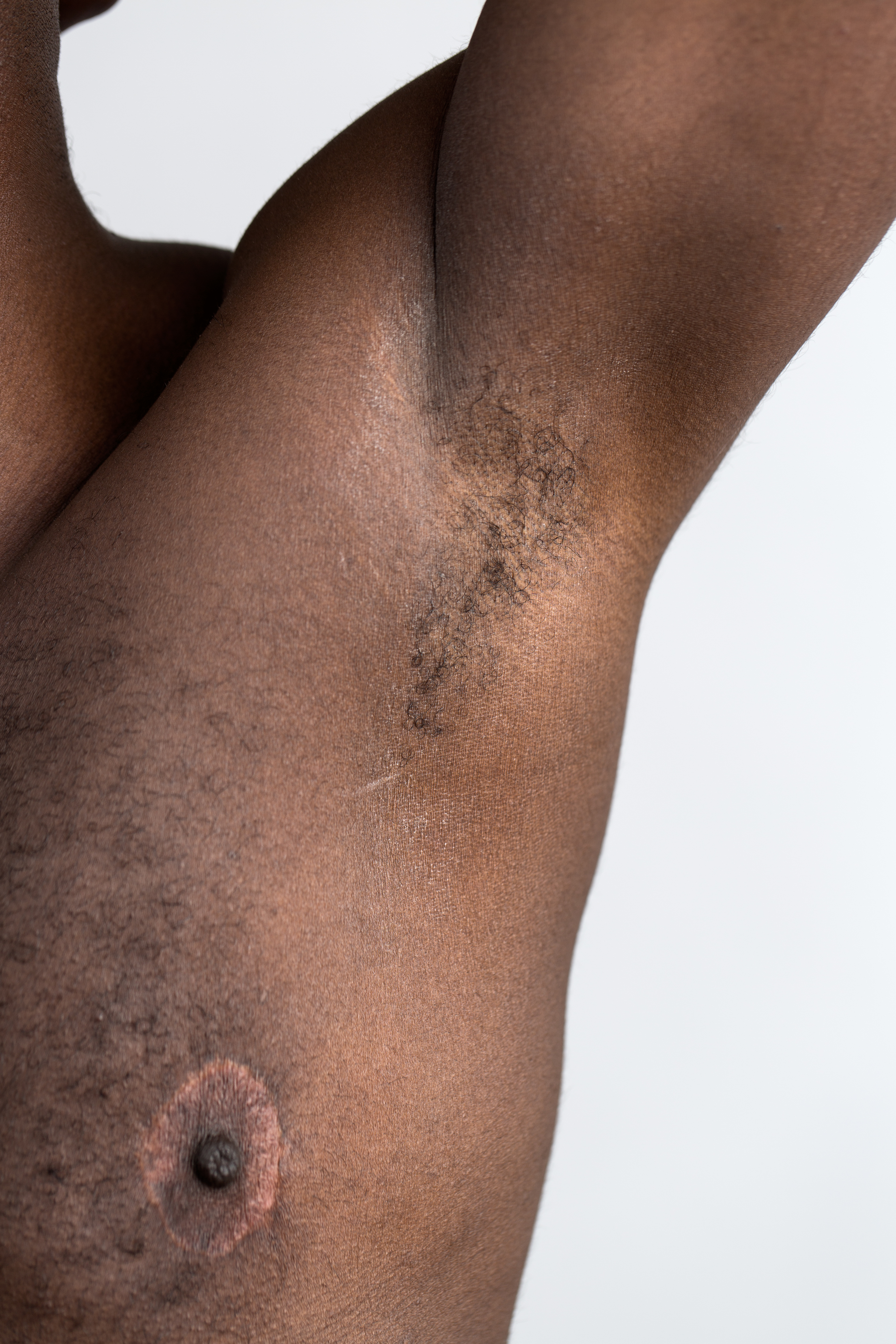 Human left arm pit with grey background